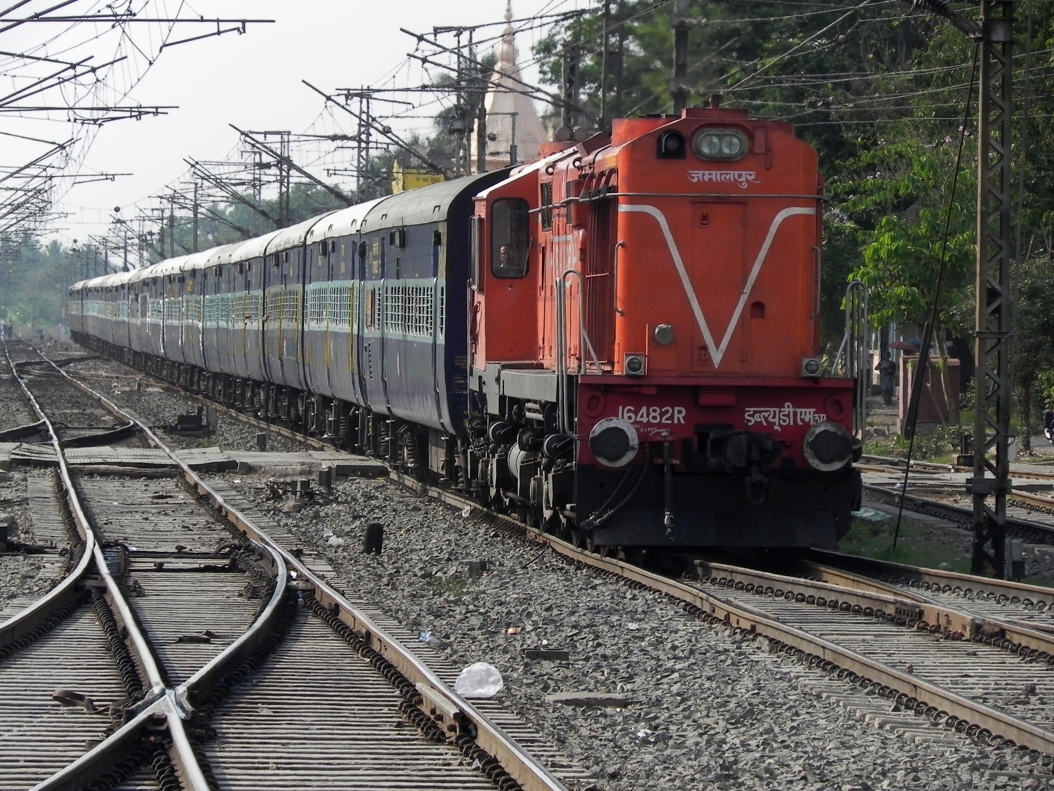 Howrah bound 12338 (Bolpur-Howrah) Shantiniketan Express with a WDM-3A loco at Monoharpur, West Bengal